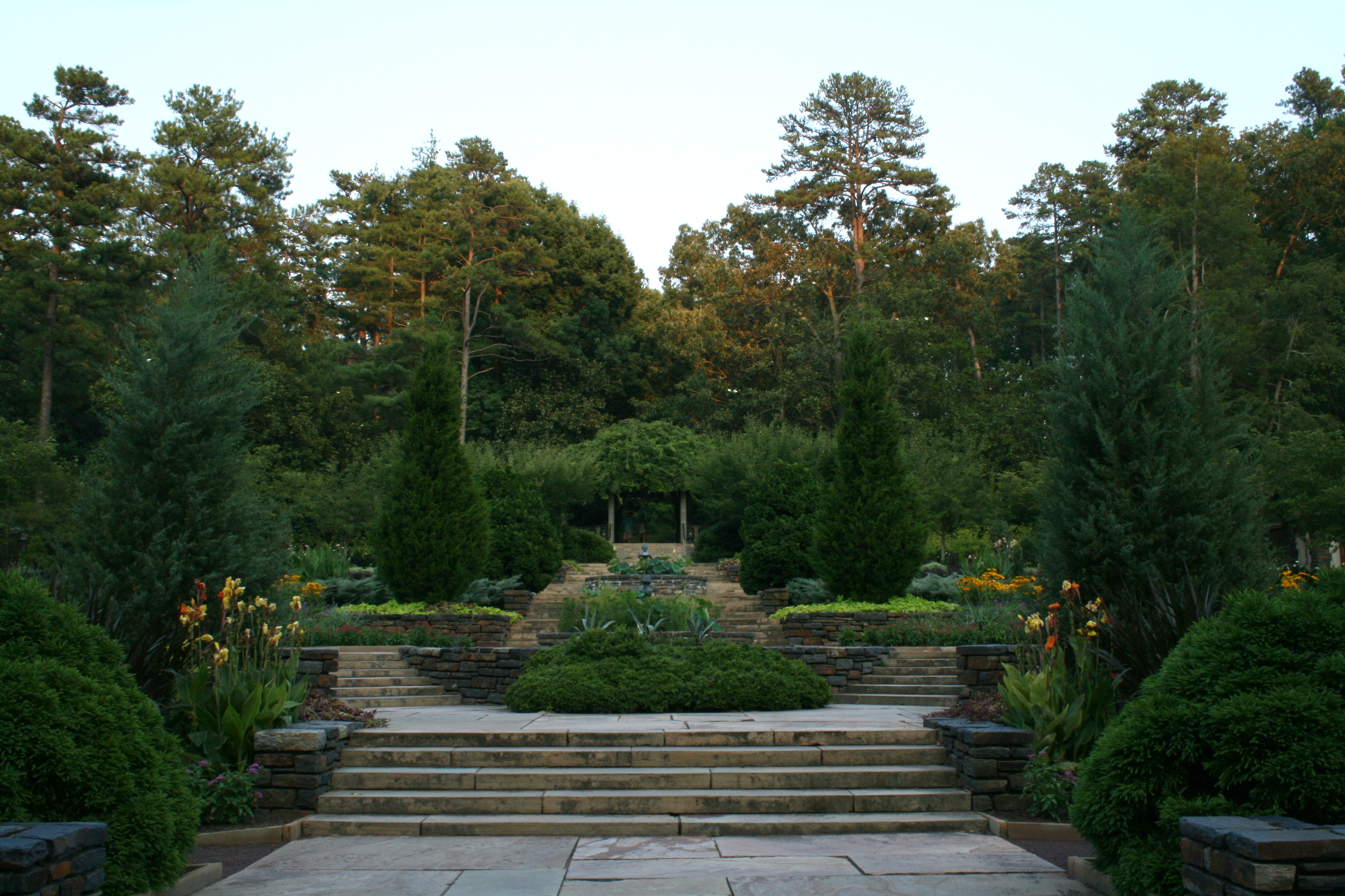 Main terrace of the Sarah P. Duke Gardens in Durham, North Carolina.